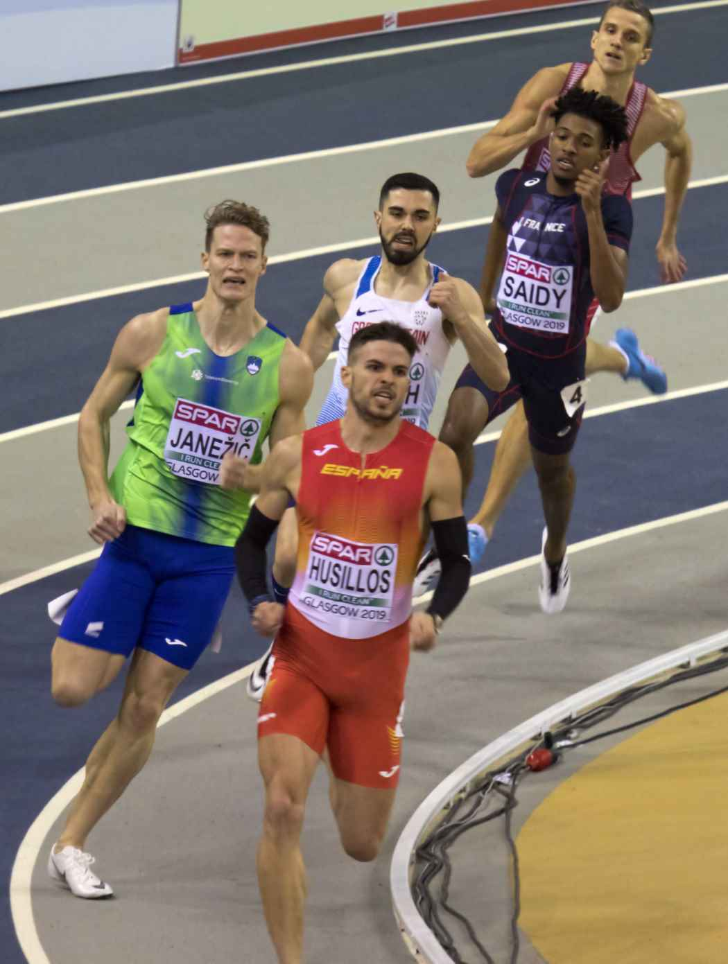 semi 1 of 400m event, Glasgow 2019